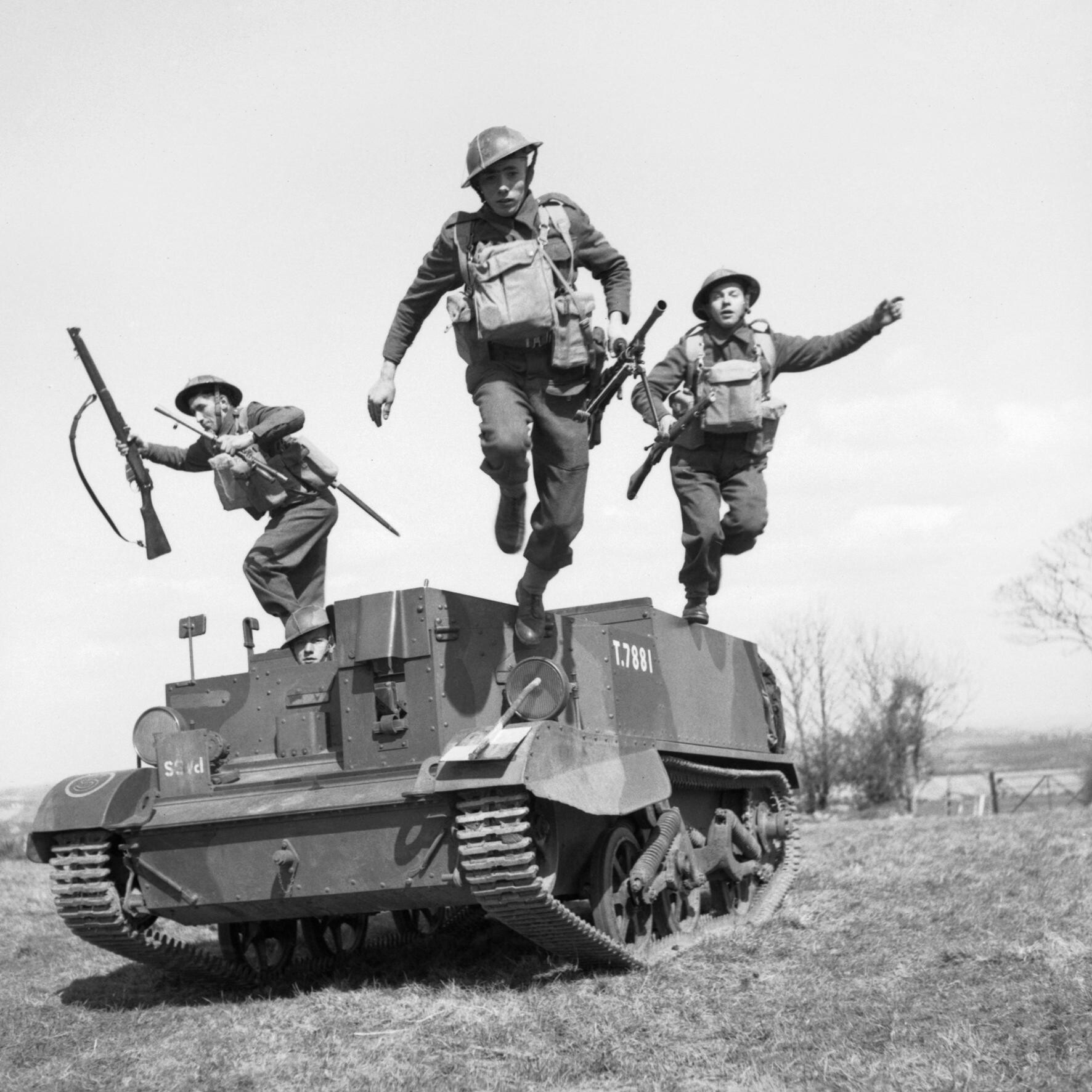 Troops of the 2nd Monmouthshire Regiment leap from their Universal carrier during an exercise near Newry in Northern Ireland, 26 April 1941. Troops of the 2nd Monmouthshire Regiment leap from their Universal carrier during an exercise near Newry in Northern Ireland, 26 April 1941.